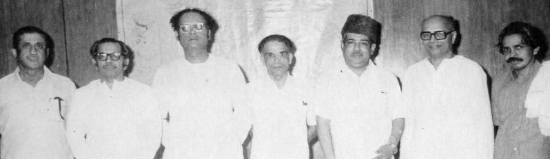 Kerala Ministers from 1979 CH Mohammed Koya Ministry